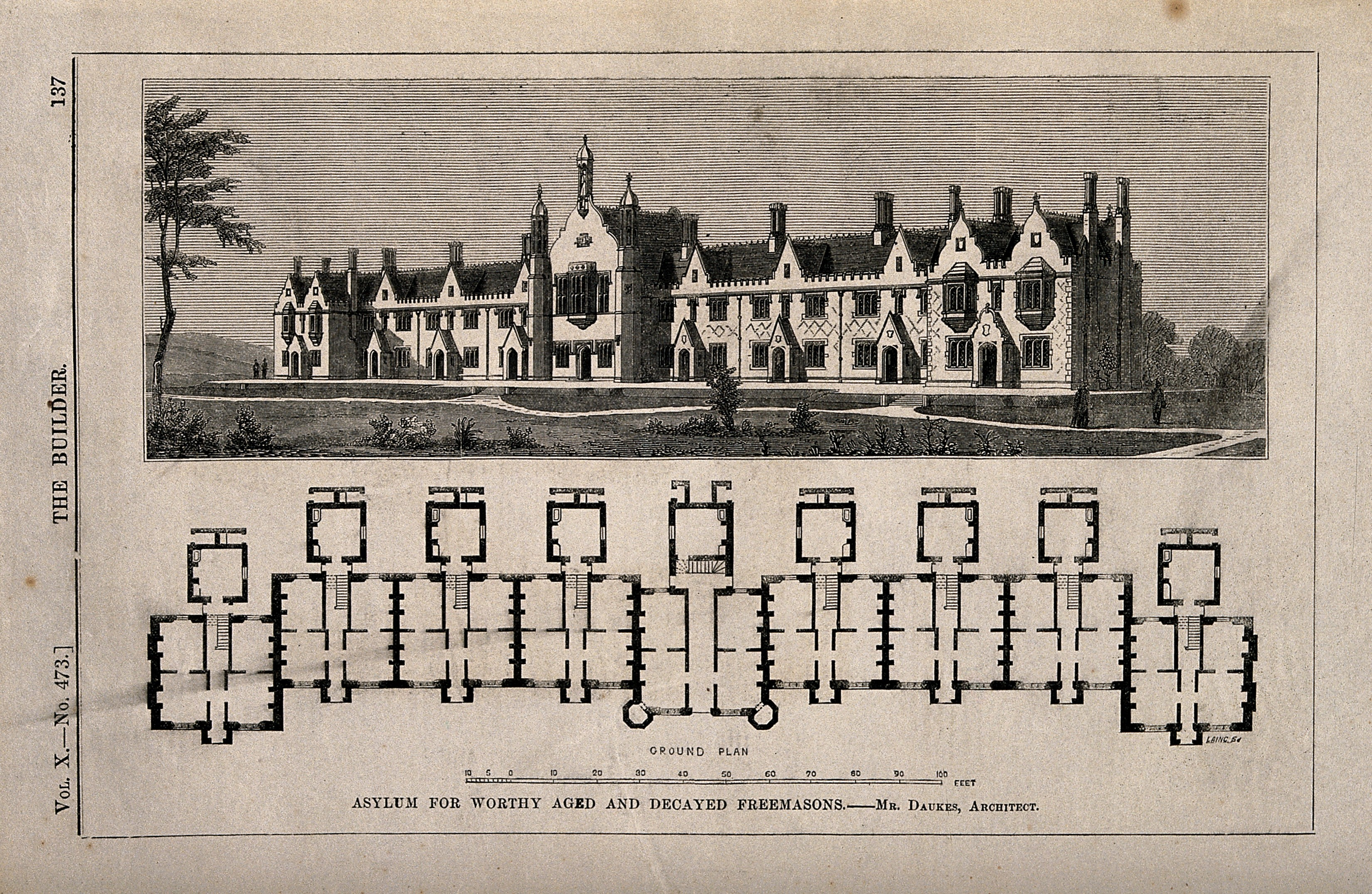 Asylum for Worthy and Decayed Freemasons, Croydon, England: perspective view and floor plan. Wood engraving by C.D. Laing, 1852. Iconographic Collections Keywords: Samuel Whitfield Daukes; Asylum for Worthy and Decayed Freemasons (Croydon); Charles D. Laing